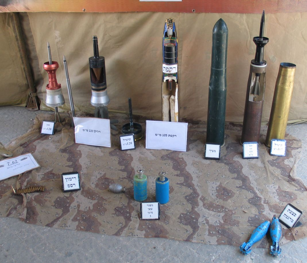 Tank ammunition. Independence Day exhibition at Yad la-Shiryon Museum, Latrun, Israel.